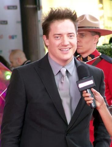 Brendan Fraser & Tanya Kim